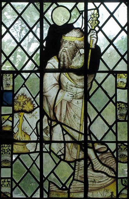 St Mary's parish church, Thenford, Northamptonshire: early 15th-century stained glass image of St Christopher in the east window of the north aisle